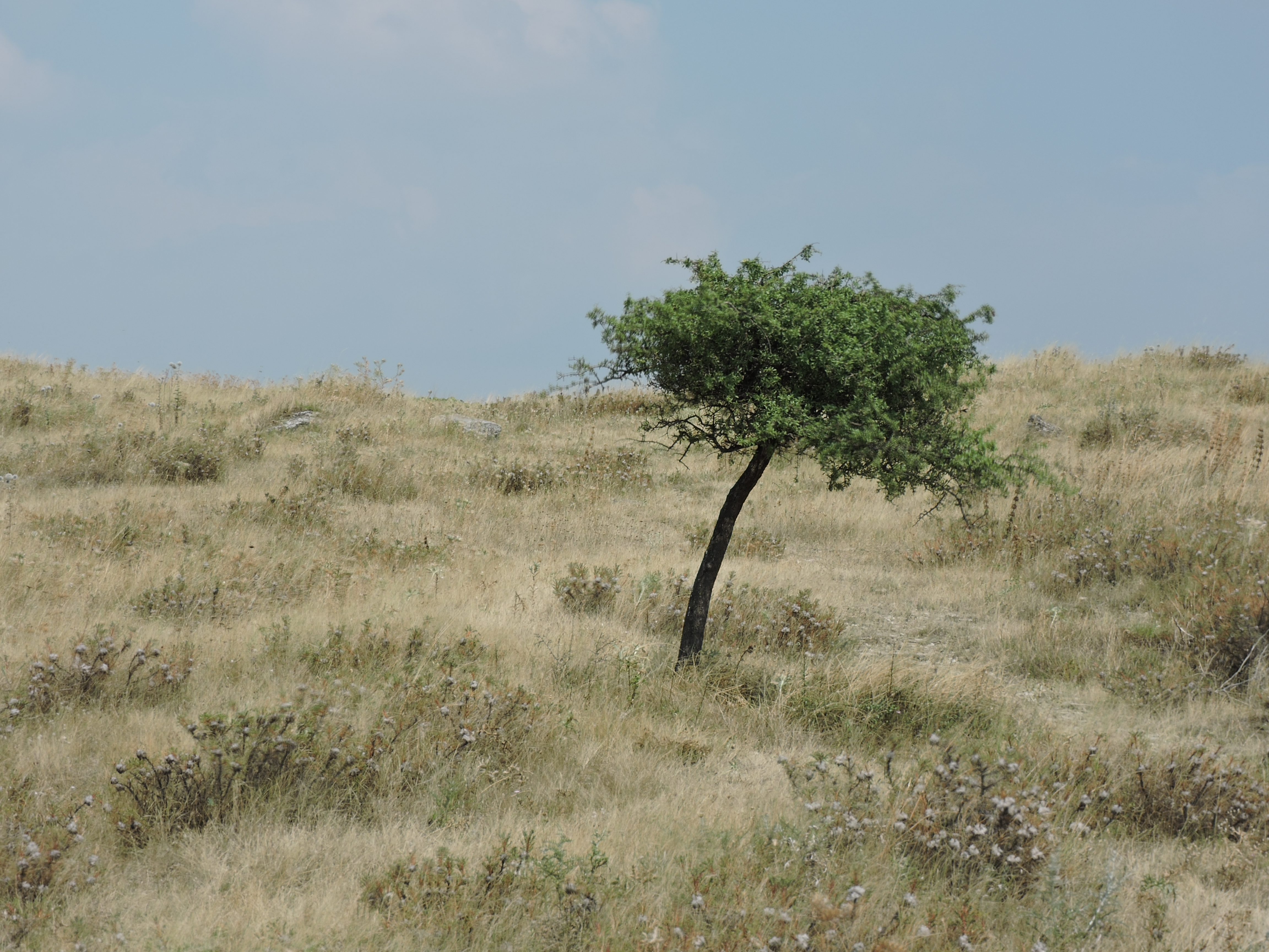 Encompassing the Ovche Pole basin and several adjacent regions in North Macedonia, the so-called "Macedonian steppe" is an ecotype defined by Matevski et al (2008). Given the small proportion of steppe species of flora as well as the natural development of forest cover in abandoned areas, the "Macedonian steppe" is considered a steppe-like formation, rather than a "true steppe".